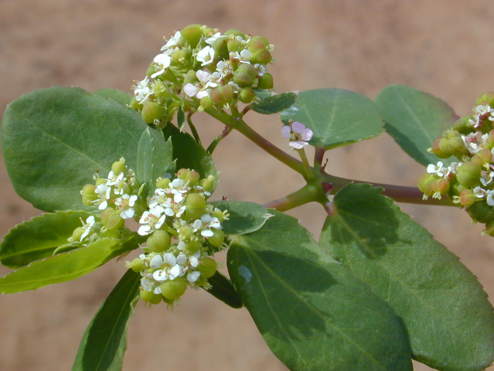 Closeup of the spurge, Chamaesyce hyssopifolia, photographed at BPNAS, O‘ahu, Hawaiian Islands by Eric Guinther (Marshman at en.wikipedia).